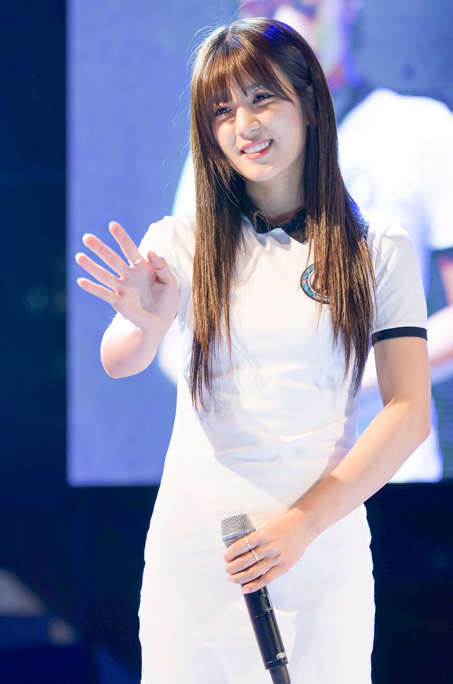 Park Chorong at Soongsil University festival, 6 October 2014